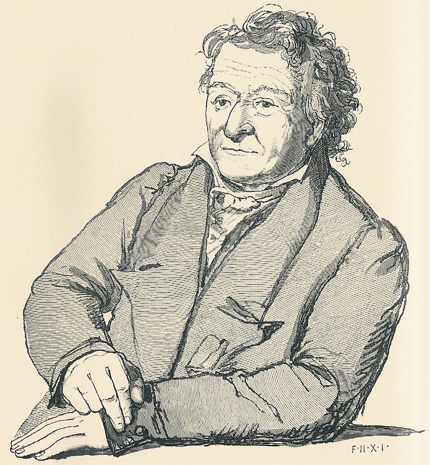 Knud Lyne Rahbek, efter en tegning af den norske maler J.C. Dahl.